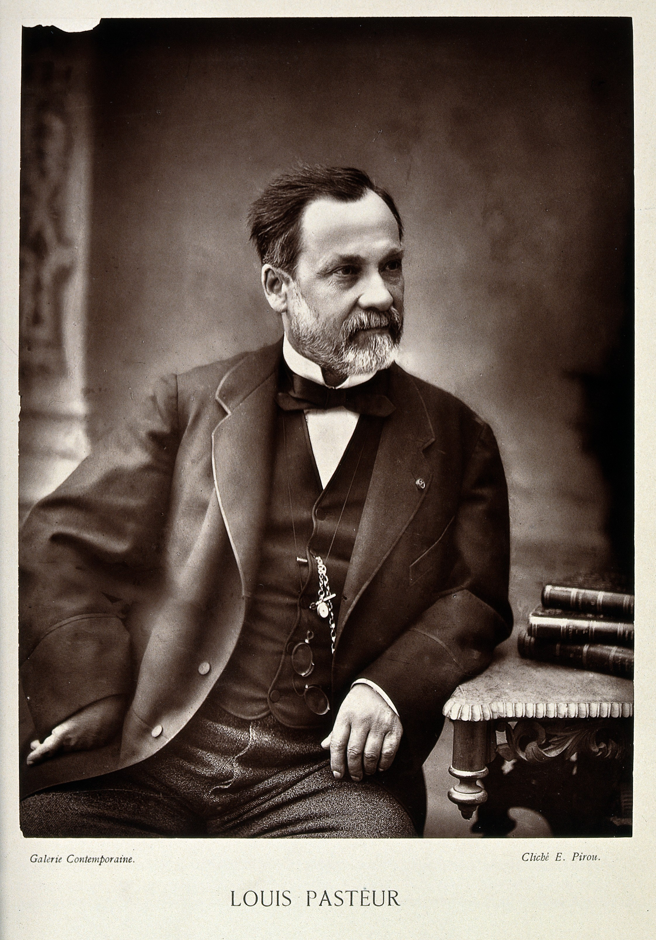 Portrait of Louis Pasteur [1822 - 1895], French microbiologist and chemist Iconographic Collections Keywords: Eugene Pirou; portrait photographs